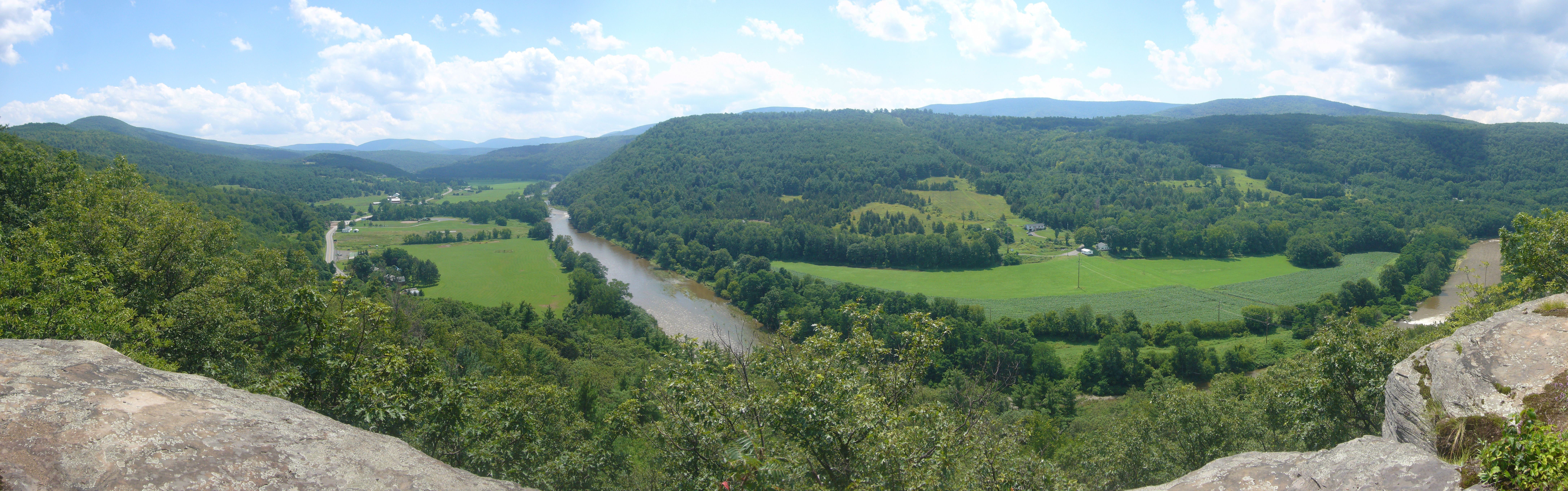 View from the top of Pratt Rock in Prattsville, New York. Pratt Rock is a series of stone carvings depicting the life of Zadock Pratt. The Schoharie Creek is pictured, meandering in the valley.